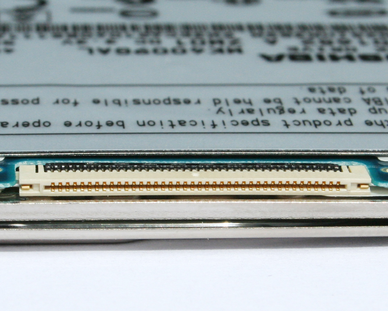 Low Insertion Force (LIF) connector of a 1.8" harddisk (Toshiba MK4009GAL)